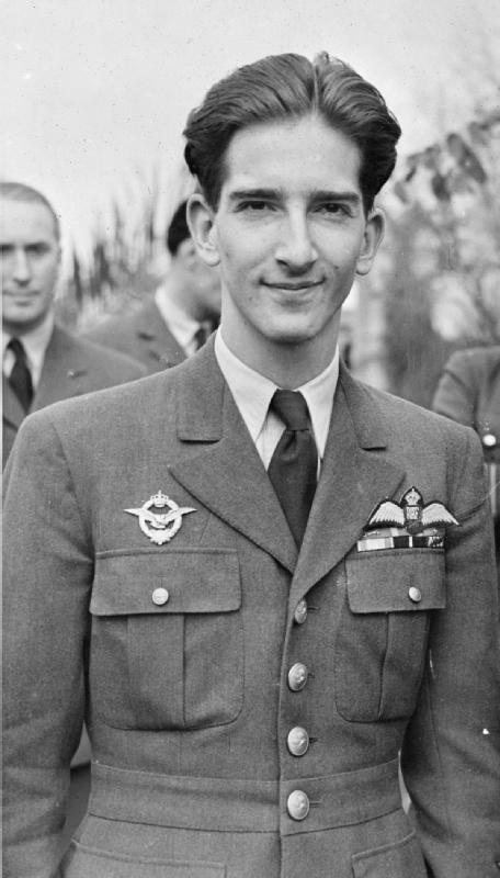 King Peter of Yugoslavia after receiving his wings from Air Chief Marshal Sir Sholto Douglas, Cairo.